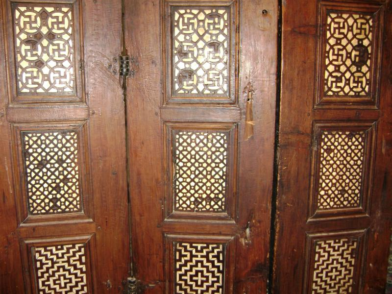 Door of Prophecies at the Christian Syrian Monastery in Egypt